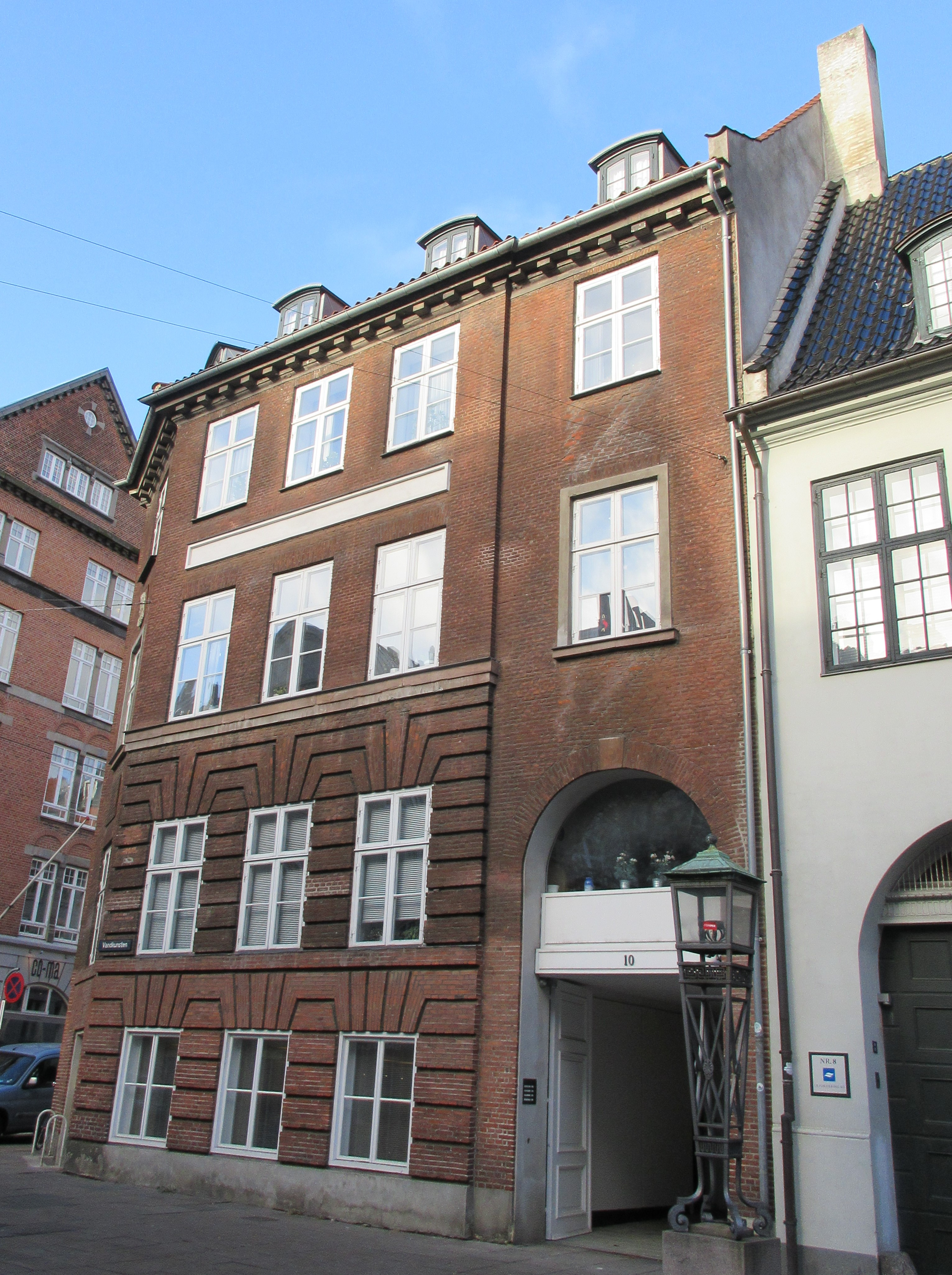 Vandkunsten 10 in Copenhagen, Denmark